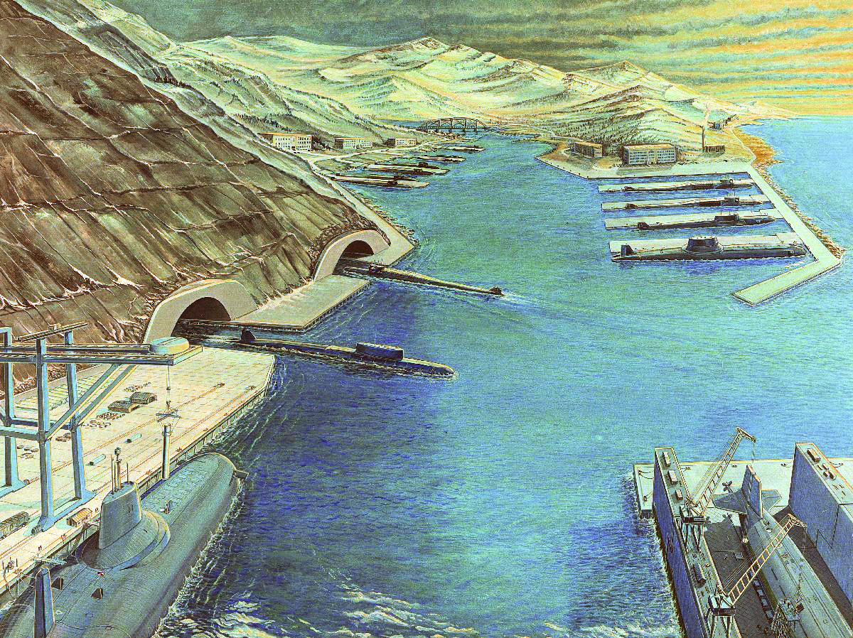 SOVIET BALLISTIC MISSILE SUBMARINE BASE The USSR's strategic nuclear forces included a growing number of new TYPHOON-class and DELTA IV-class strategic ballistic missile submarines deployed in the 1980s. These advanced submarines, fitted with the latest generations of nuclear missiles, could operate from bases with tunnels for protection.